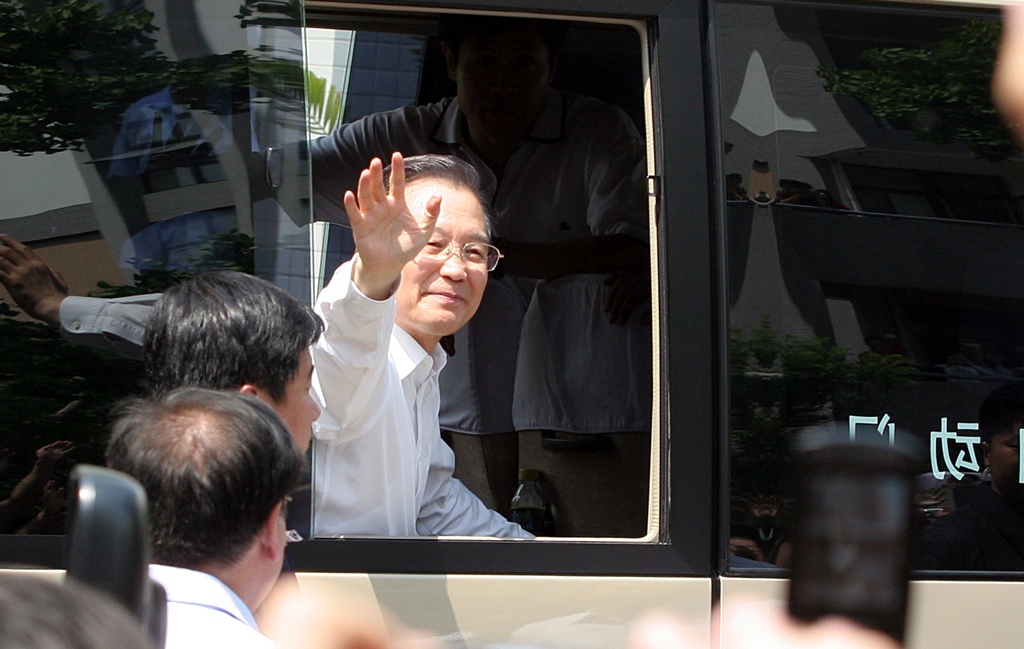 Chinese Prime minister Wen Jiabao at Tsinghua University, 2009.05.03